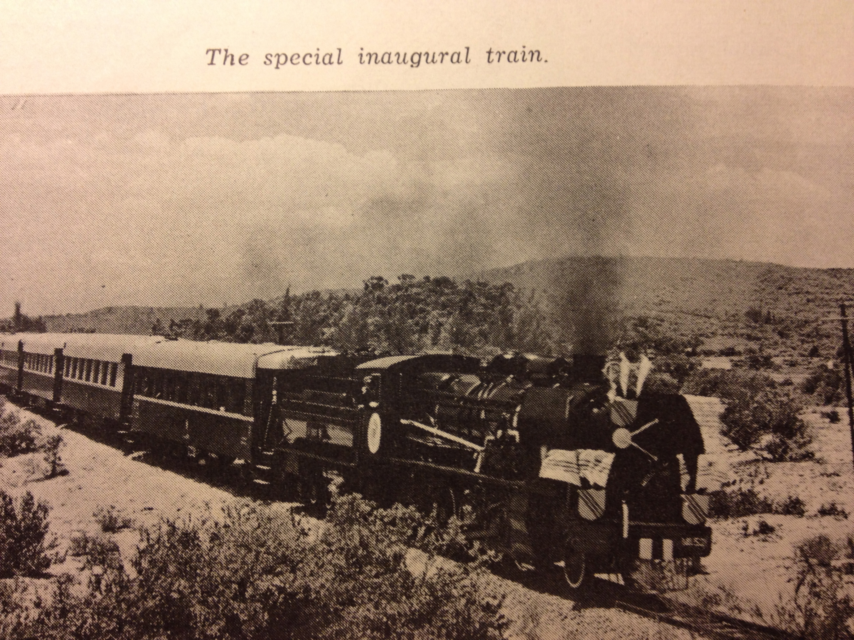 Special inaugural train from Dong-ha to Saigon 1959